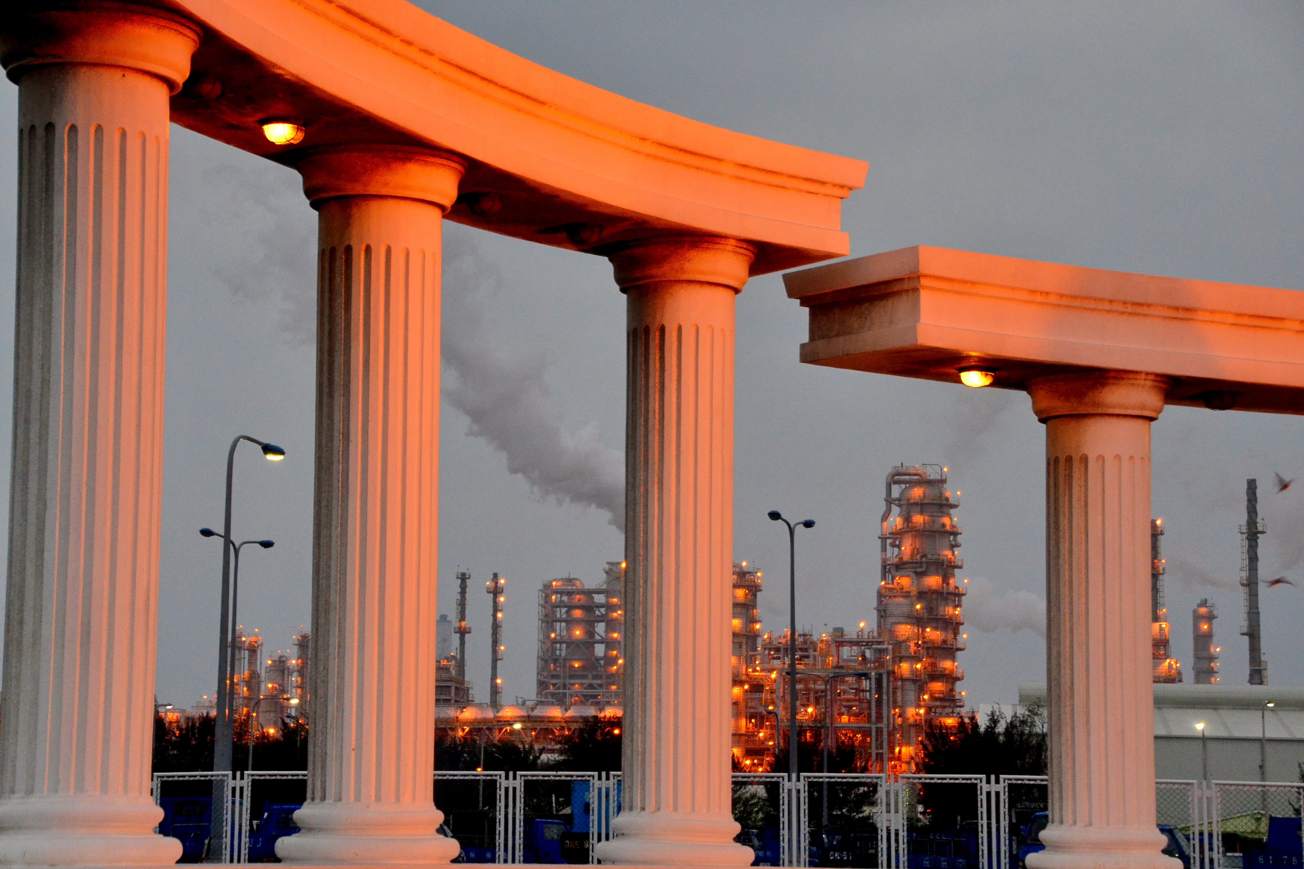 Formosa Plastics Group Mail-Liao Industrial Complex, Yunlin, Taiwan.